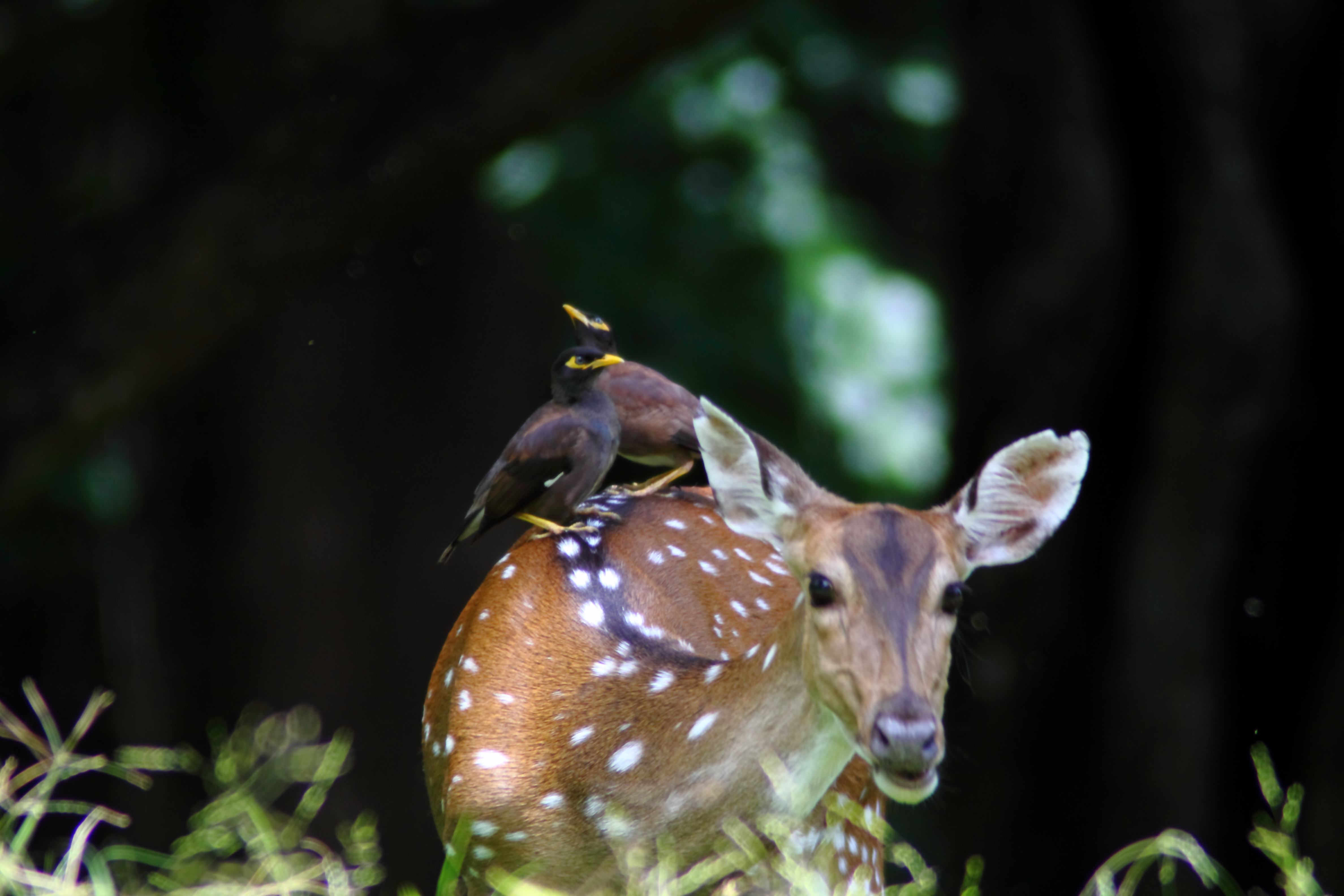 Chital (Axis axis) with Common Myna (Acridotheres tristis) pair.